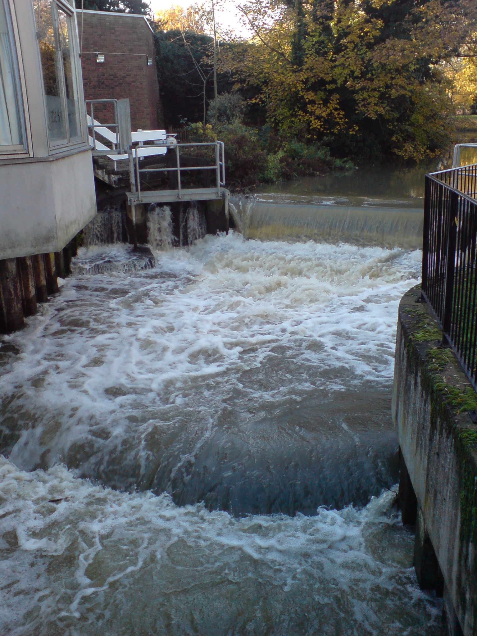 Jamsta 21:54, 27 September 2006 (UTC)